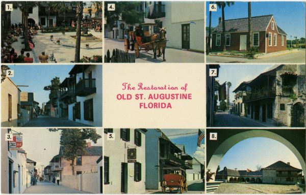 Postcard depicting restoration work carried out by the Historic St. Augustine Preservation Board. 1. Hispanic Gardens, 2. Restored Calle Real (Modern St. George St.), 3. Spanish Colonial Buildings, 4. Casa Ribera House, 5. Oliveros and Benet Houses, 6. W.M. Simms Silver Shop, 7. Old Spanish Inn, 8. Casa Del Hidalgo (Spanish Building)